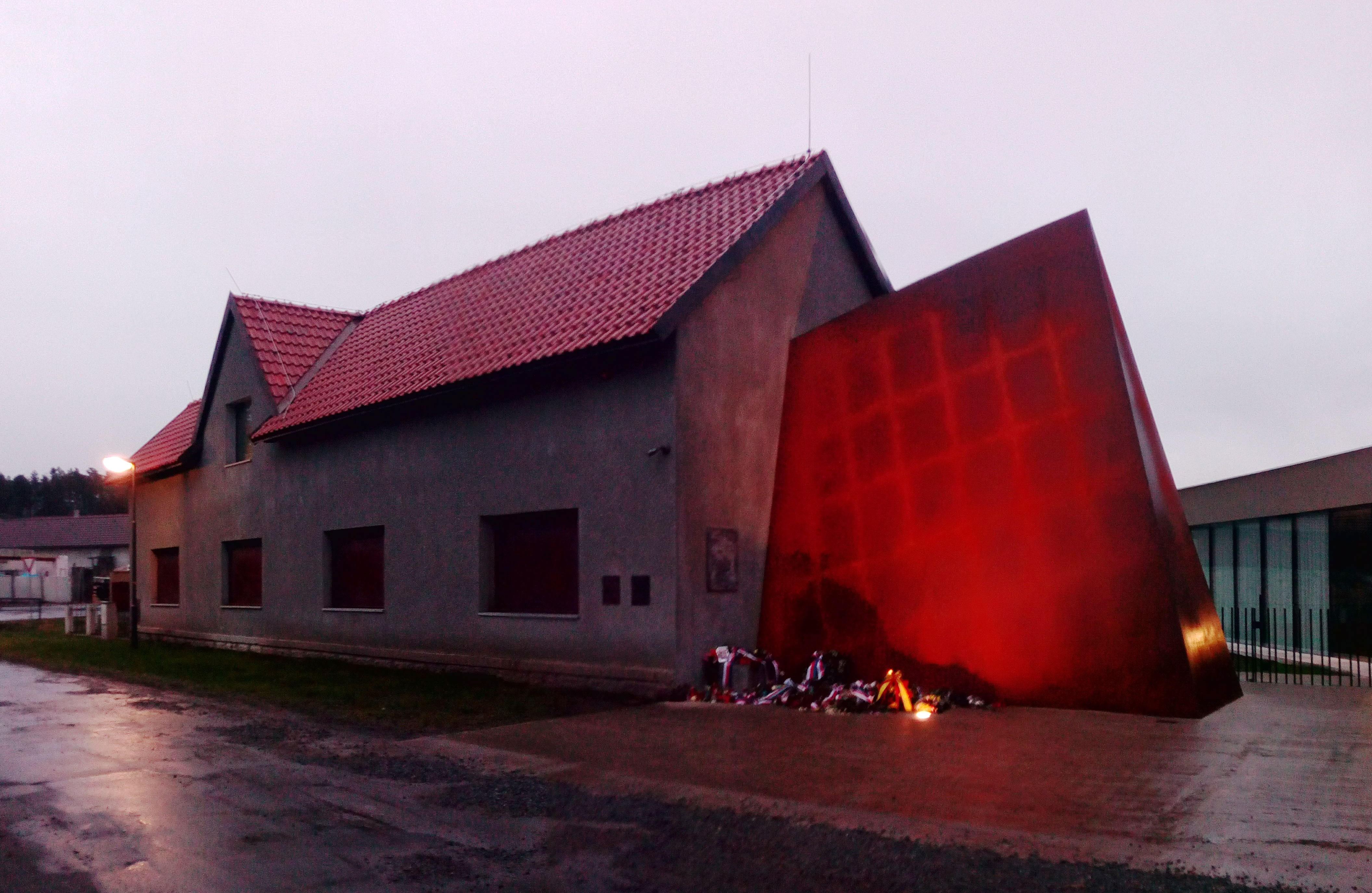 Native house of Jan Palach, Smetanova No 337, Všetaty, Mělník District, Czech Republic, shortly after the opening of the memorial in January 2020, at dawn